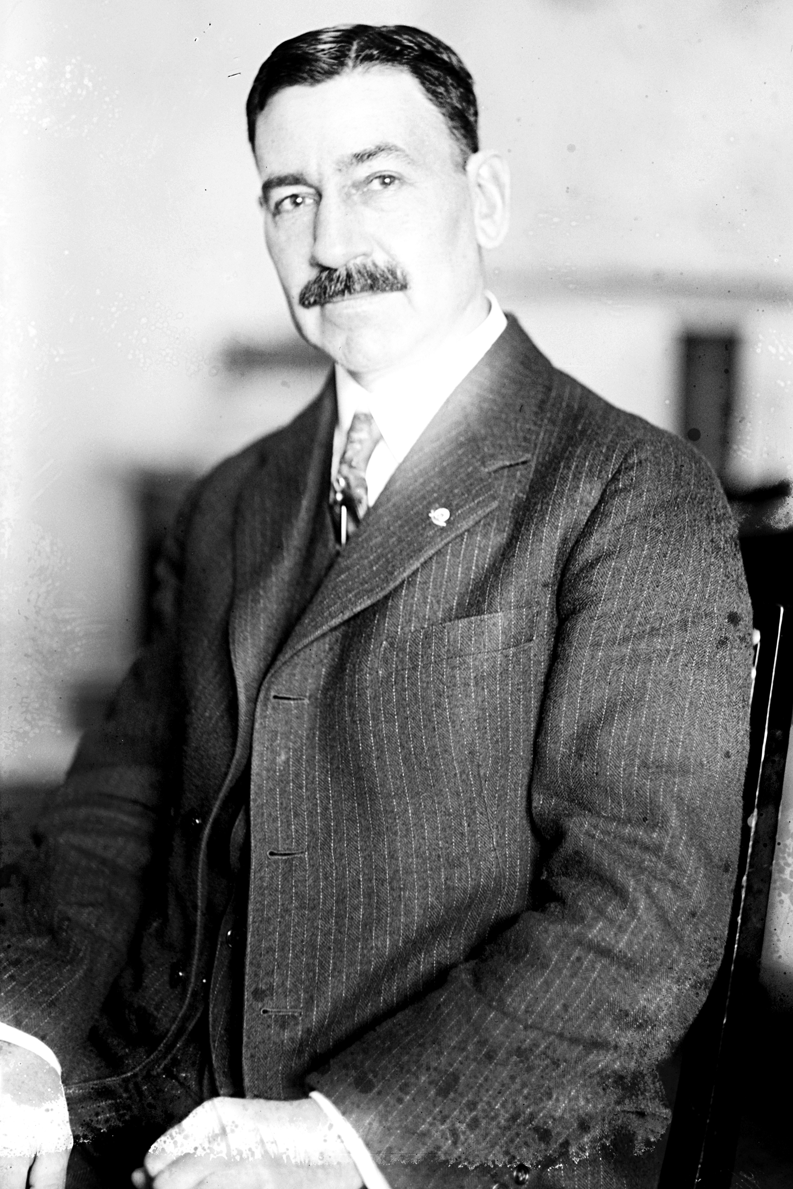 Herbert W. Taylor, US Representative from New Jersey